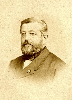 Photo of Charles de Kerchove de Denterghem, a Belgian liberal politician.